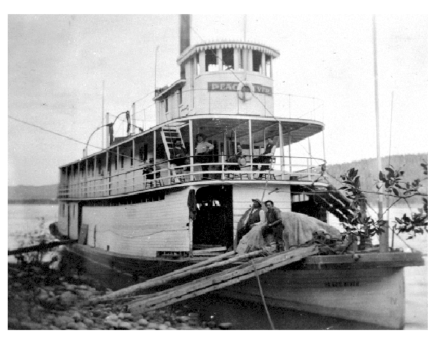 Photo taken 1912 Photographer Unknown Source BC Archives C-06797 [1]